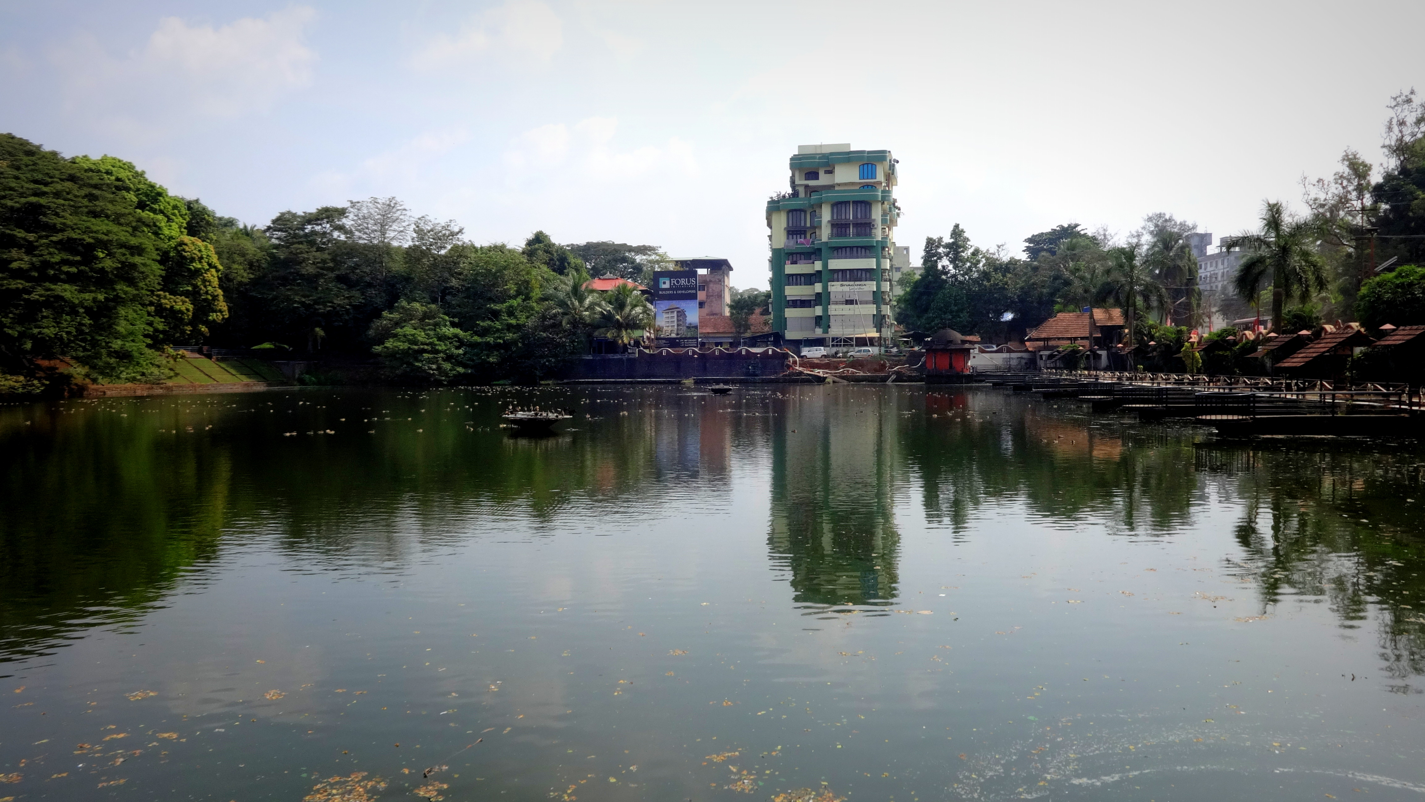 Vadakkechira pond.